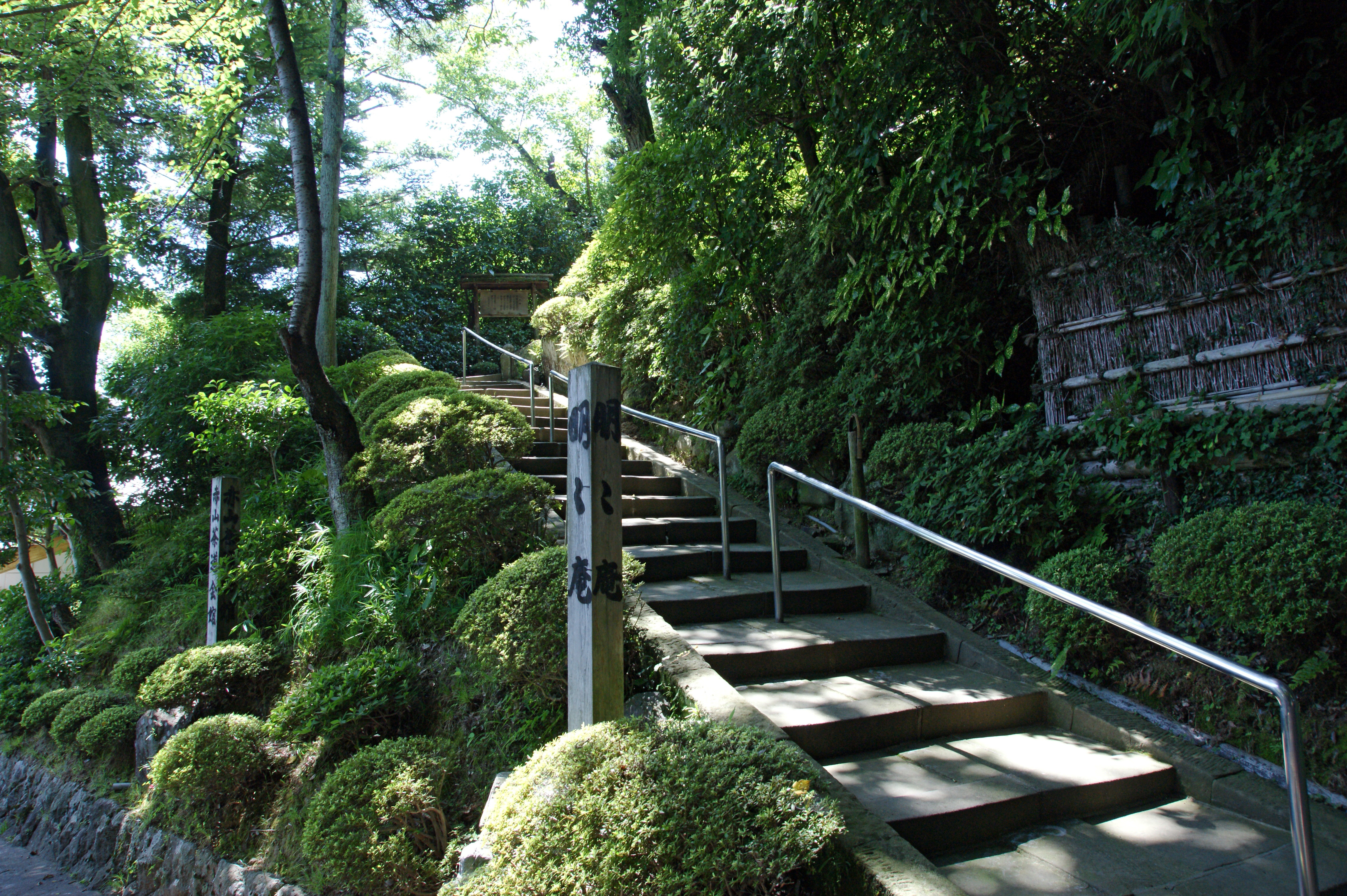 Meimeian in Matsue, Shimane prefecture, Japan